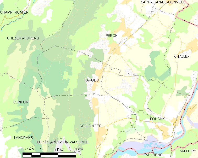 Map of French commune: Farges Map commune FR insee code 01158.png